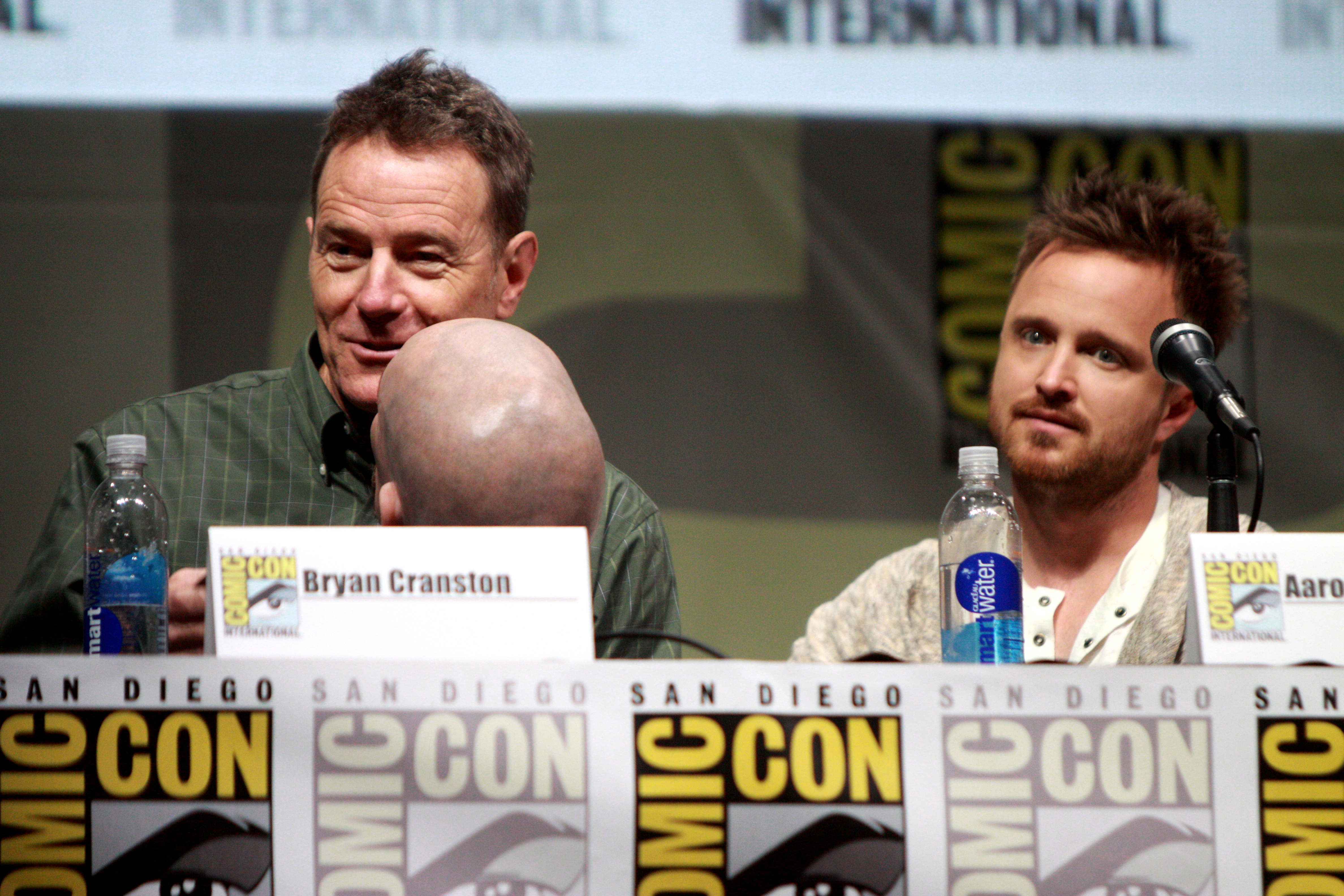 Bryan Cranston and Aaron Paul speaking at the 2013 San Diego Comic Con International, for "Breaking Bad", at the San Diego Convention Center in San Diego, California.